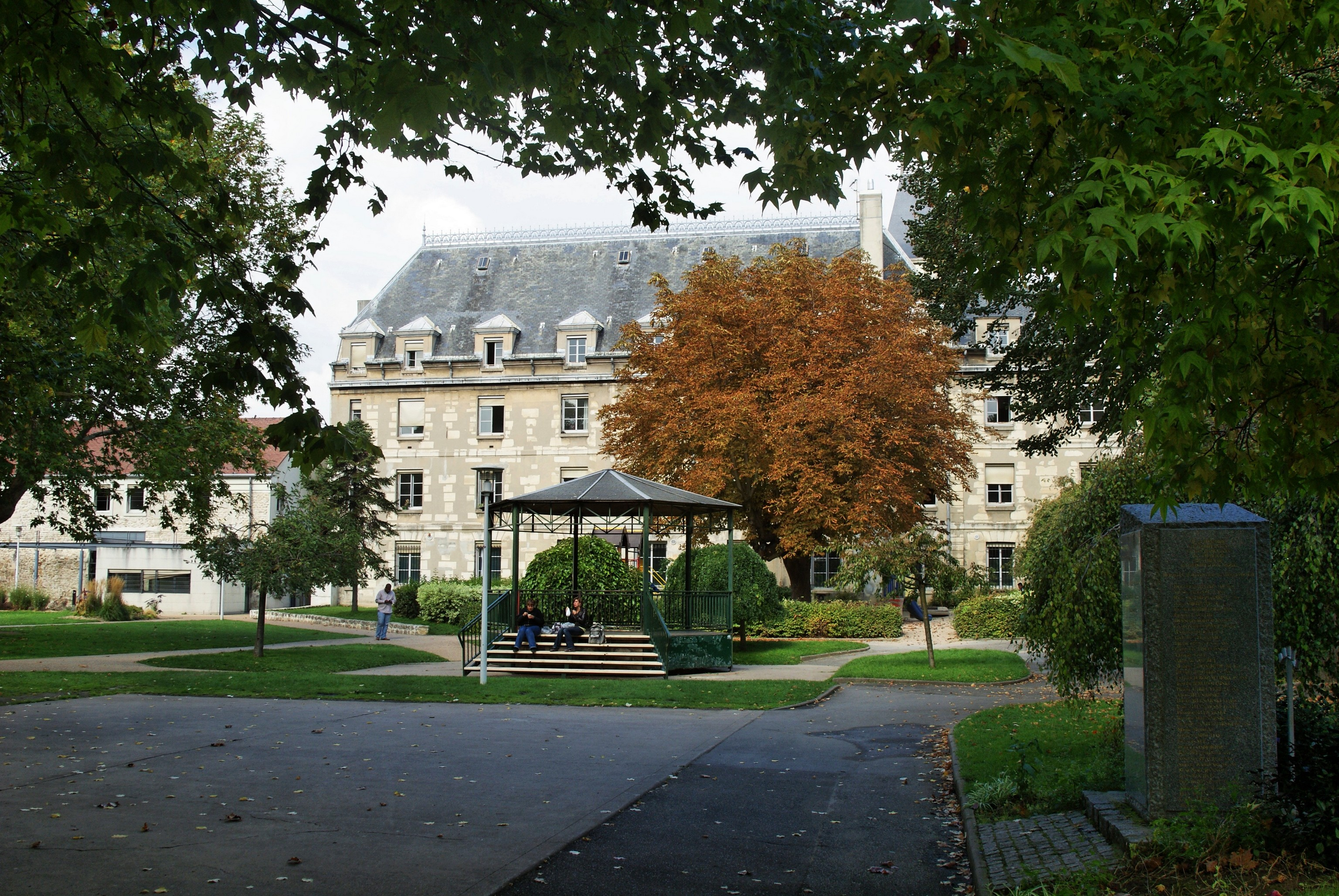 Pablo-Neruda park in Villejuif (Val-de-Marne). In the background, Villejuif town hall.